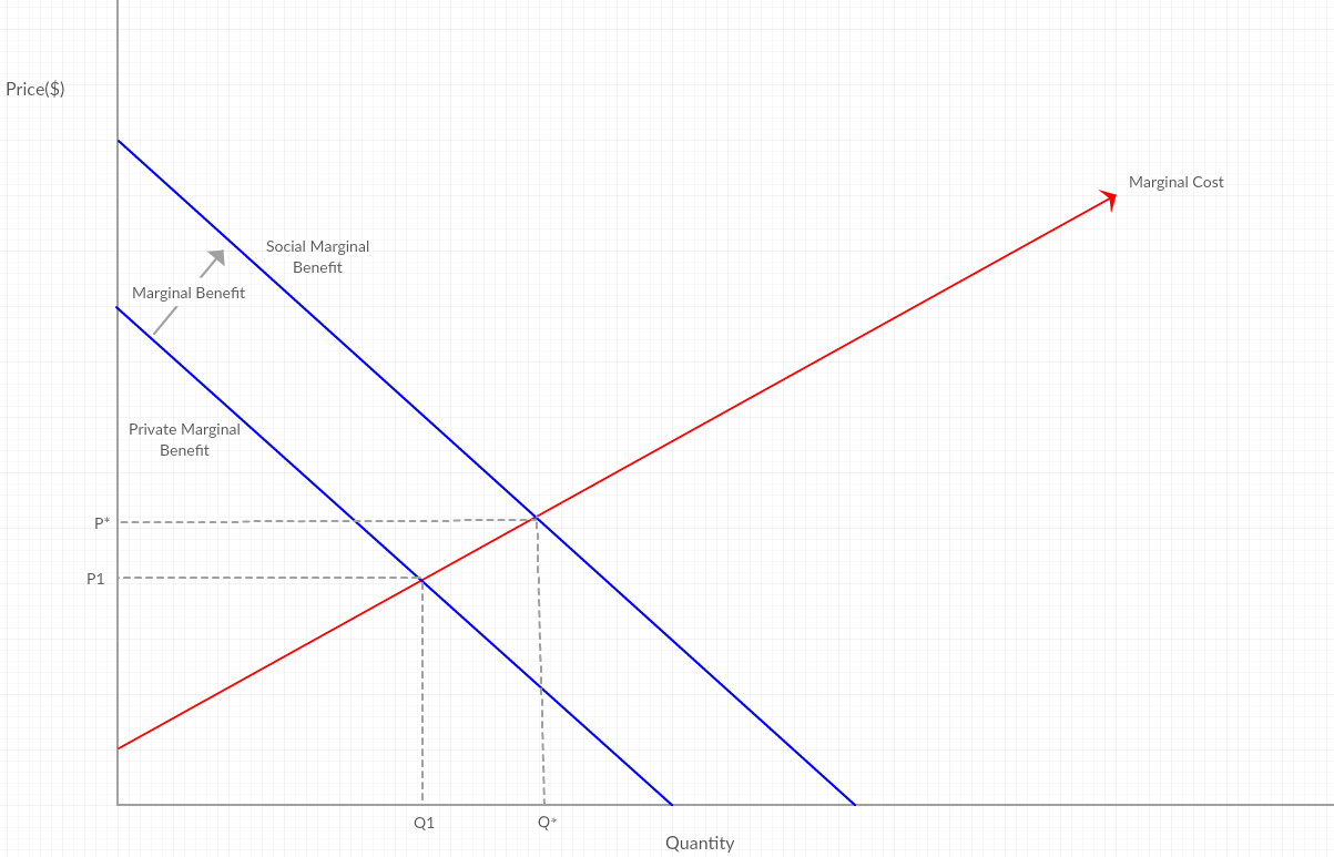 Graph showing underconsumption of immunizations